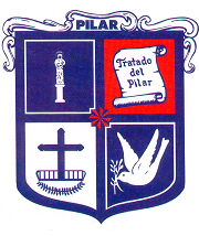 Emblem of Pilar Partido in Buenos Aires Province.